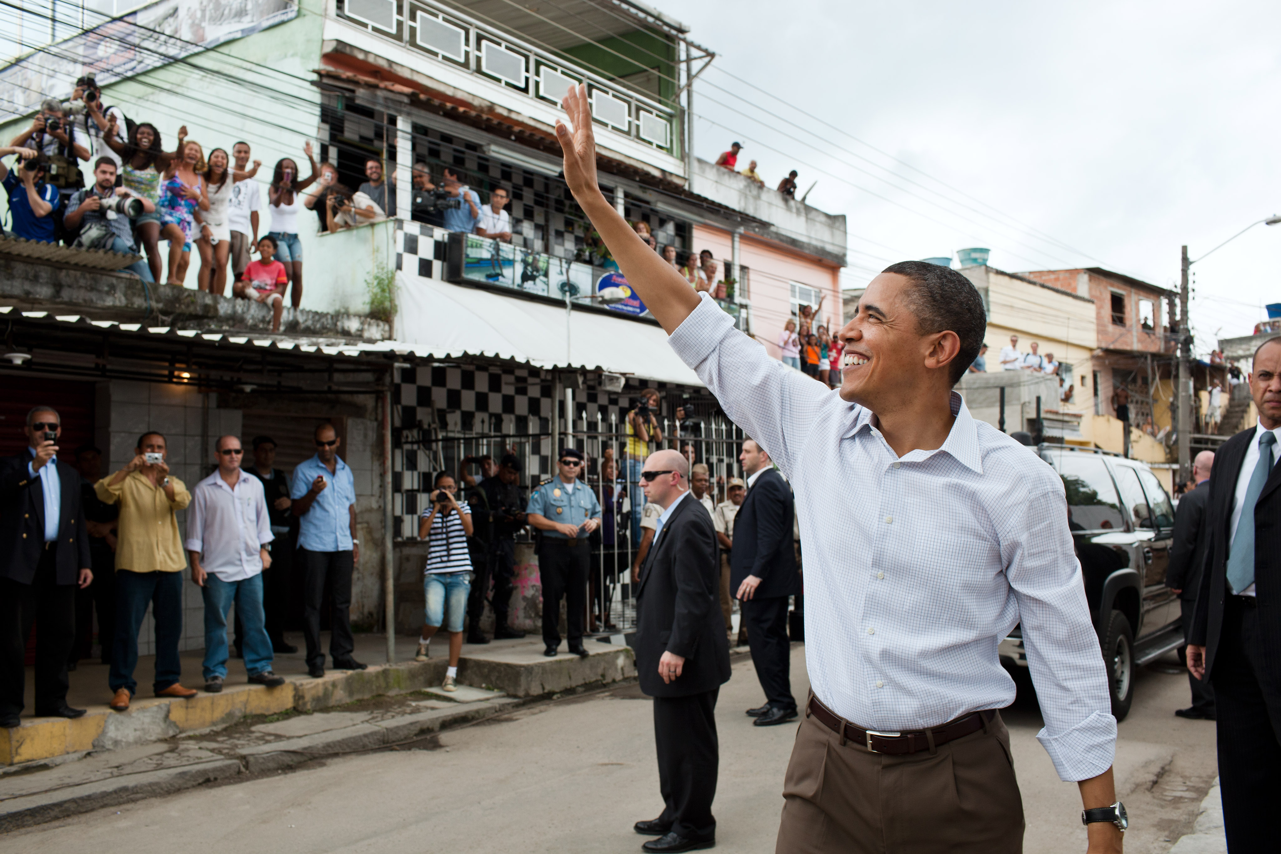 President Barack Obama waves to people gathered on the street outside the Cidade de Deus (City of God) favela Community Center in Rio de Janeiro, Brazil.